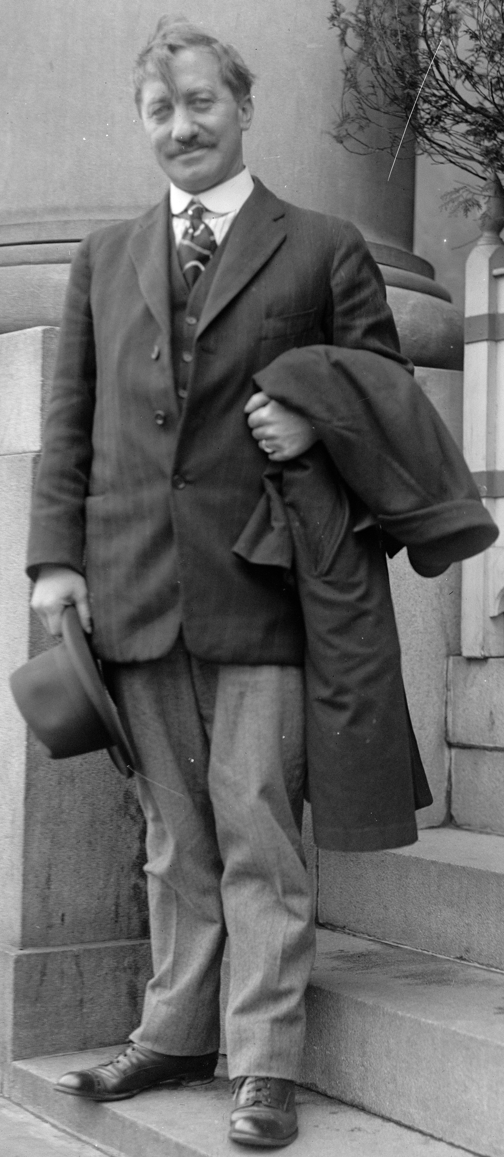 American explorer Frederick Cook (1865-1940)